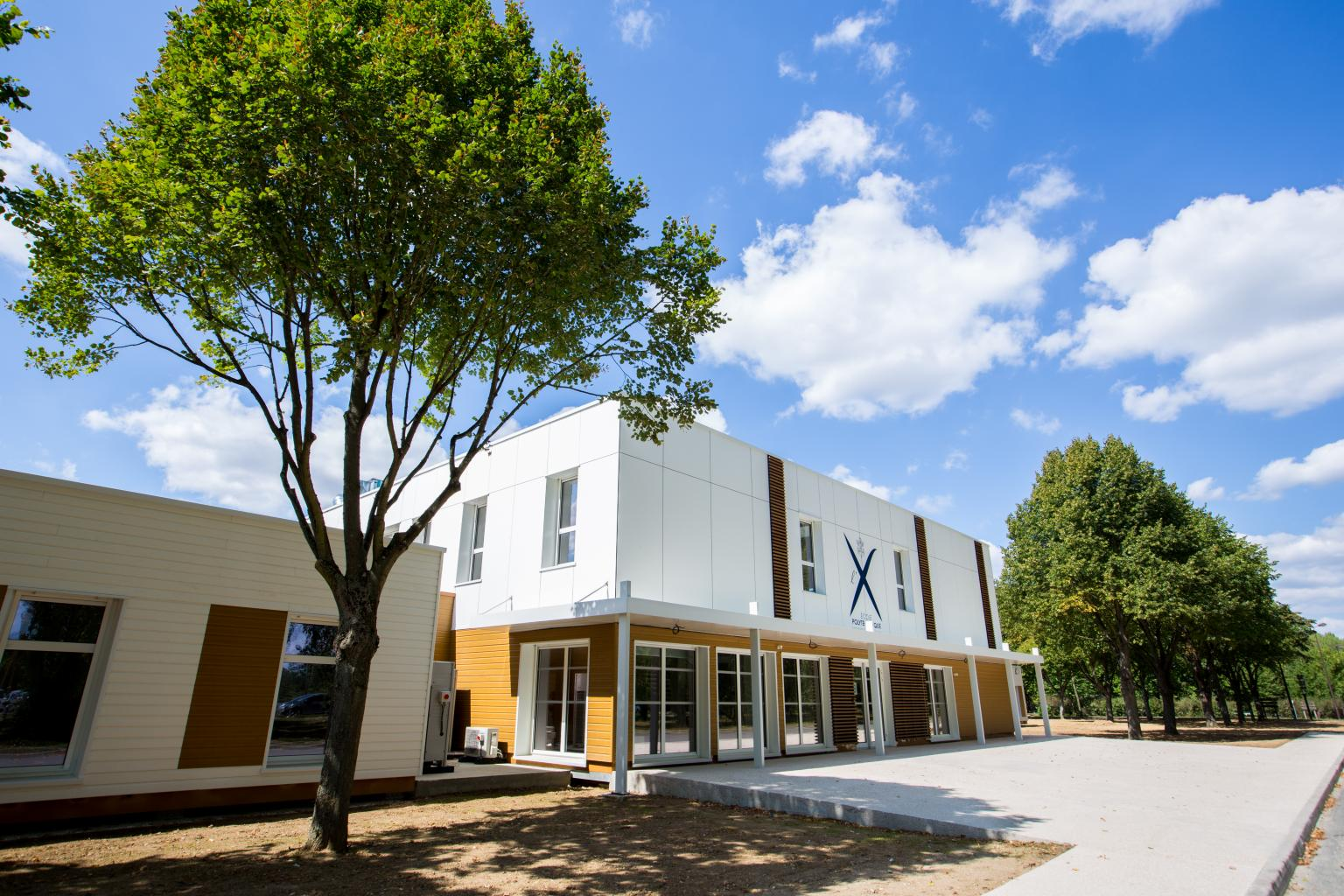 Bâtiment La Fibre Entrepreneur -- Drahi - X Novation Center accueillant le Pôle Entrepreneuriat et Innovation de l'École polytechnique.